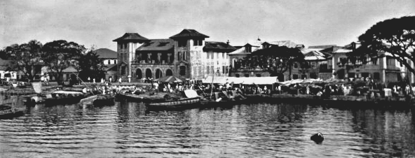 undated 19th century photograph of Lagos; shows canoes and traders in the foreground of a building on the shore.